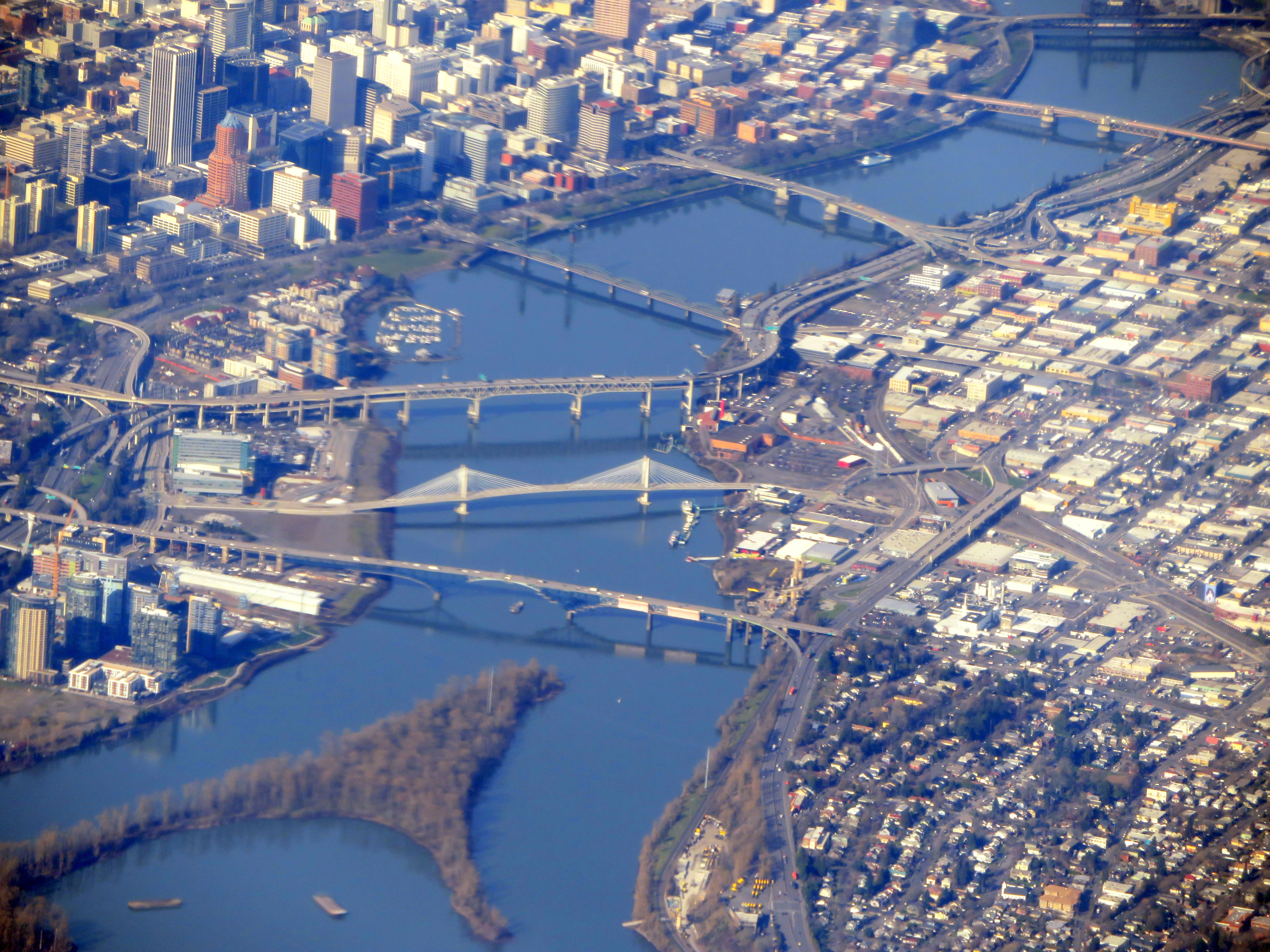 Aerial view of bridges over the Willamette River in Portland, Oregon in 2018. Visible river bridges include (starting at top of frame) the Steel Bridge (lift towers cut off in this photo), Burnside Bridge, Morrison Bridge, Hawthorne Bridge, Marquam Bridge, Tilikum Crossing, and Ross Island Bridge (with temporary coverings on a portion, during repainting work).